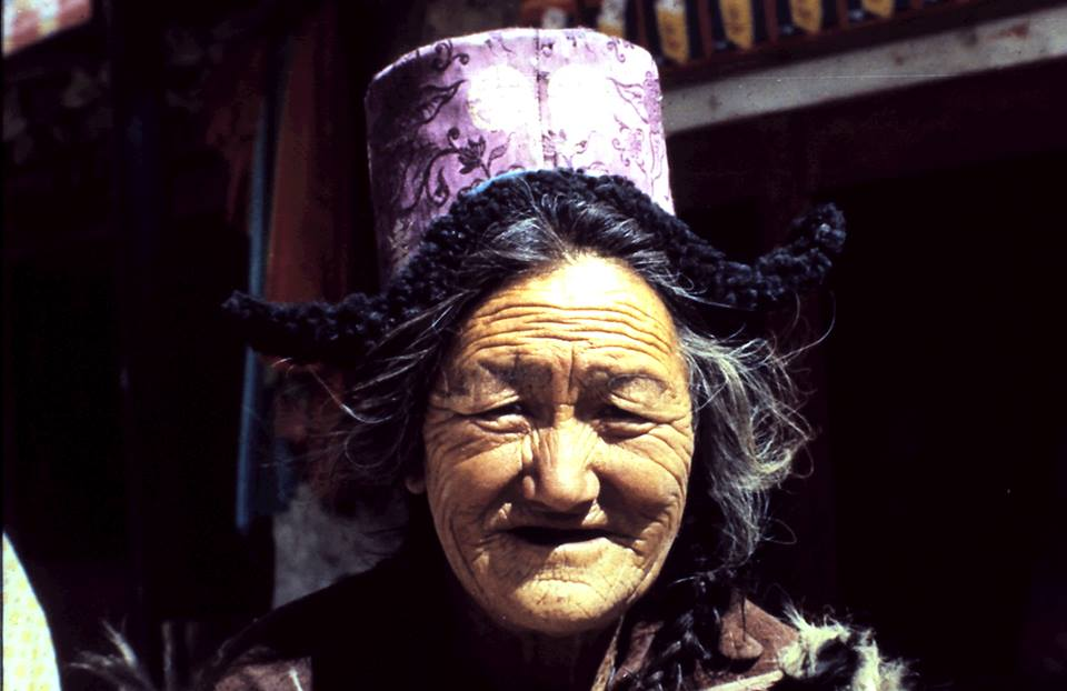 Photograph by myself on a visit to Ladakh,India.